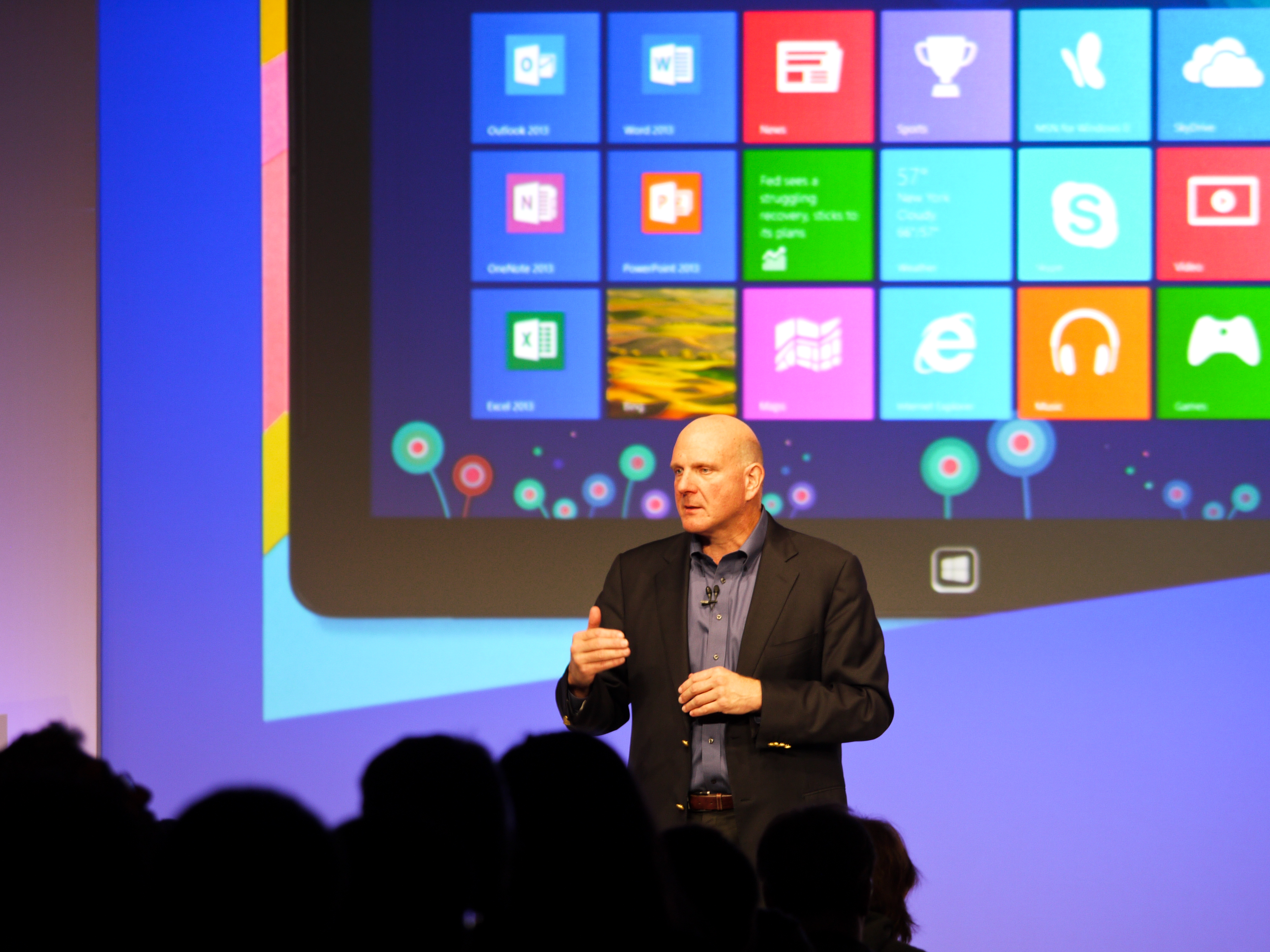 Windows 8 Launch - Steve Ballmer